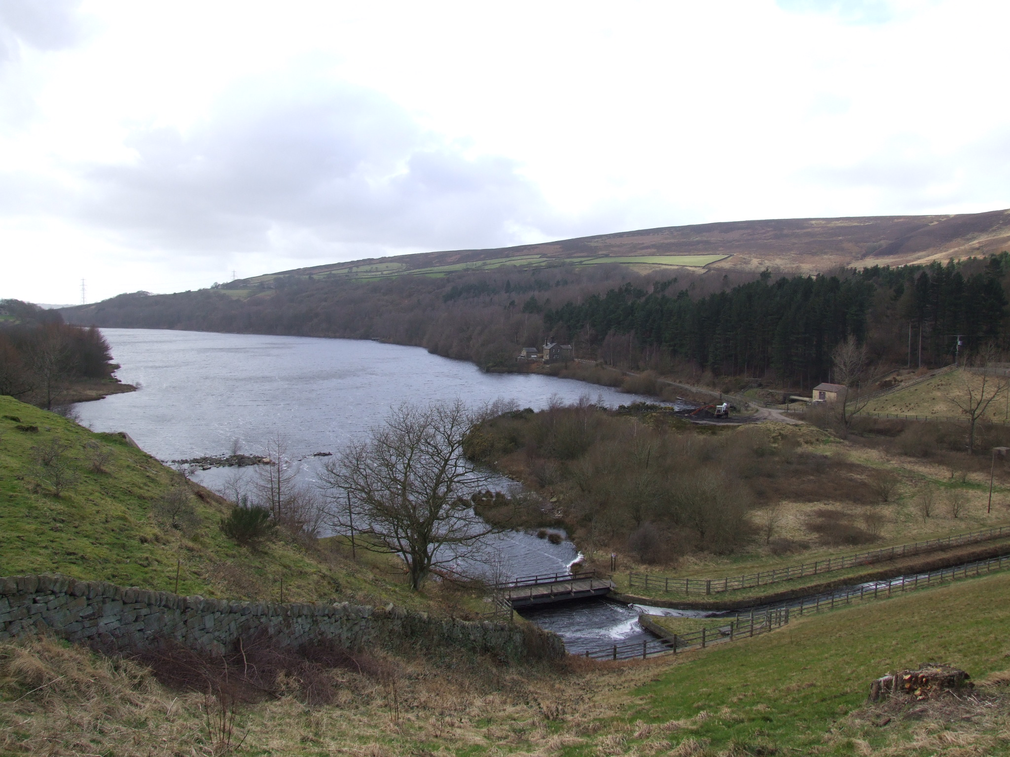 Longdendale in Derbyshire is the valley of the River Etherow. The Longdendale Chain is a series of reservoirs built to provide drinking water forManchester Looking down the valley from Rhodeswood Reservoir dam, over the Valehouse Reservoir. - OpenStreetMap(Info)